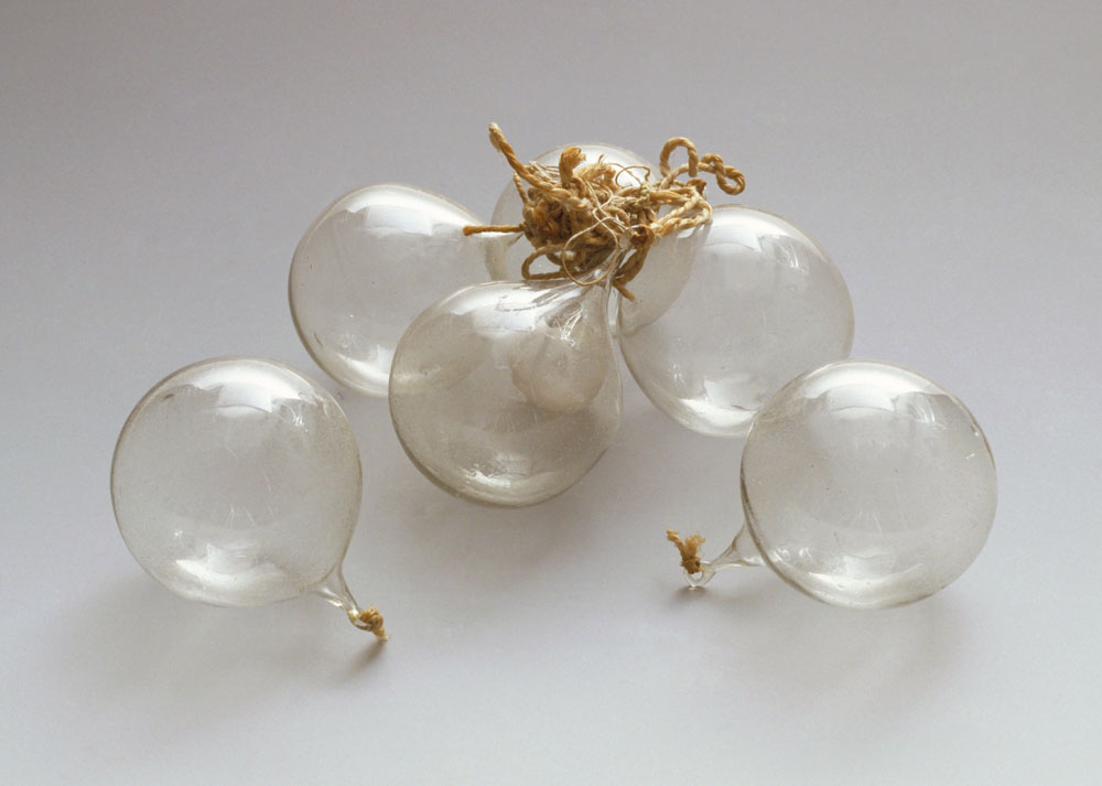 Author Unknown authorDescription